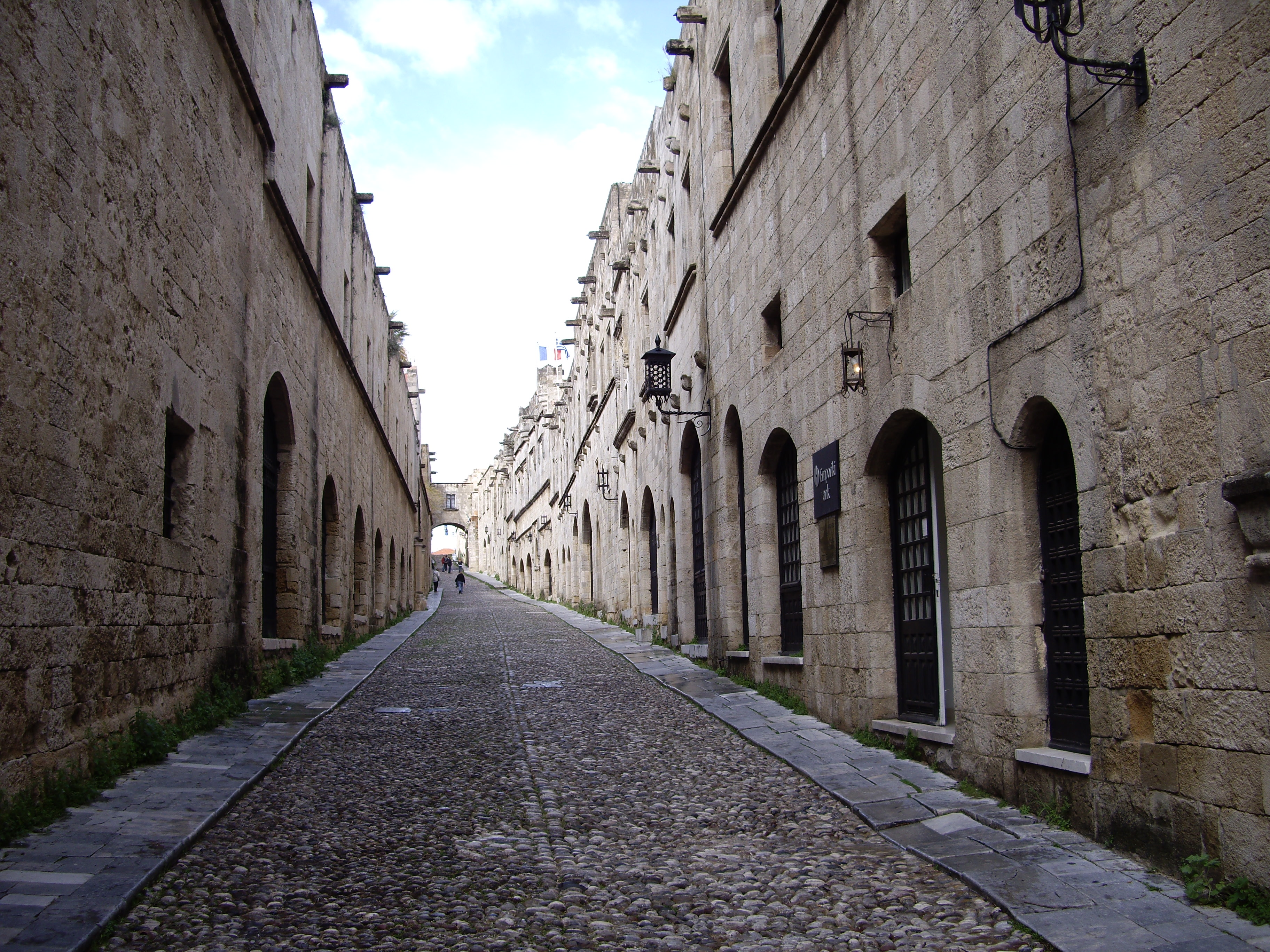 A quiet street in the old town of Rhodes. A picture of the Avenue of the Knights in Rhodes, Rhodes.